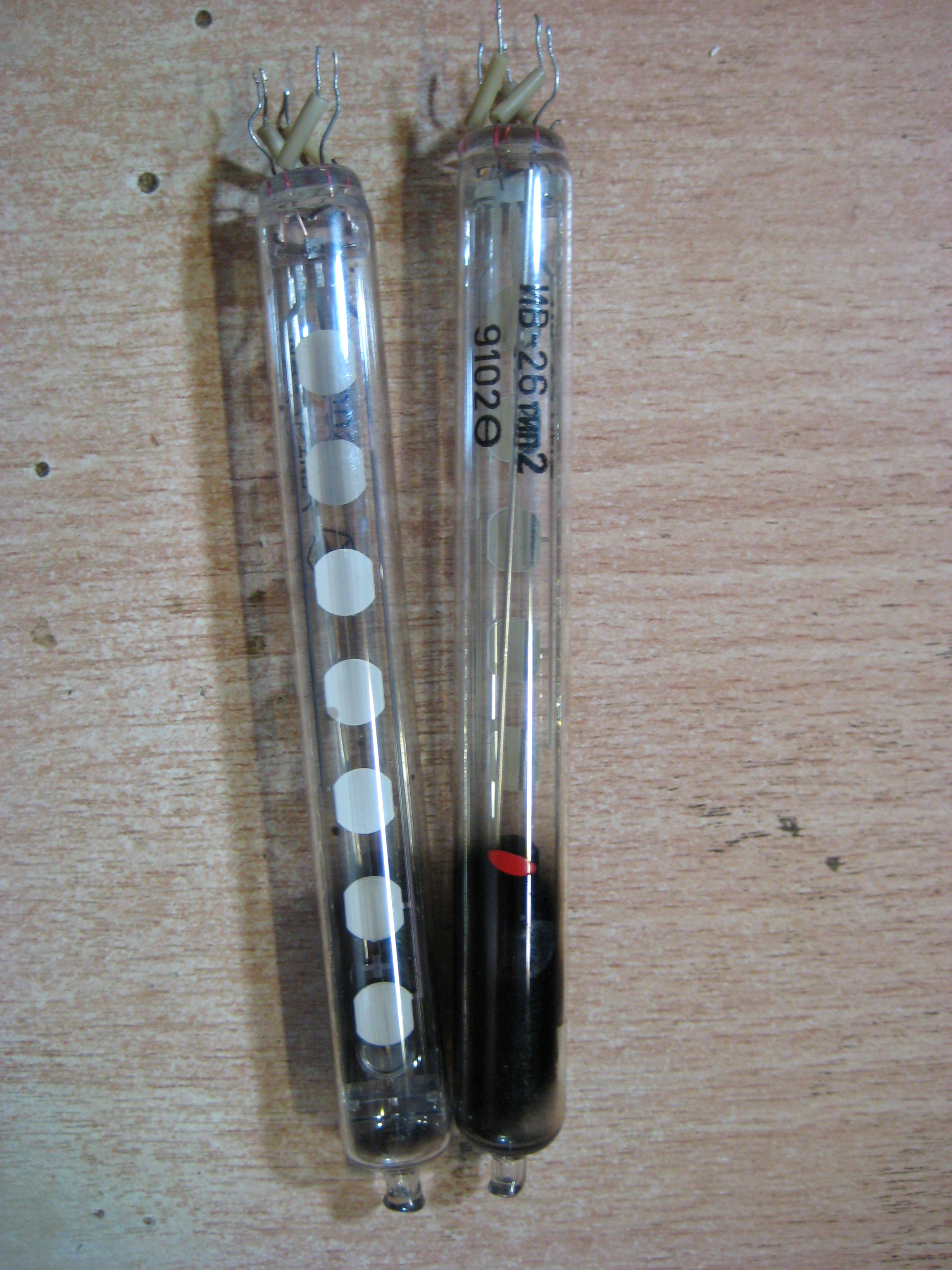 IV-26 VFD of type 2. Capable to display 7 circle points, and usually are combined into a matrix. Different types of IV-26 have different internal connections and pinout.